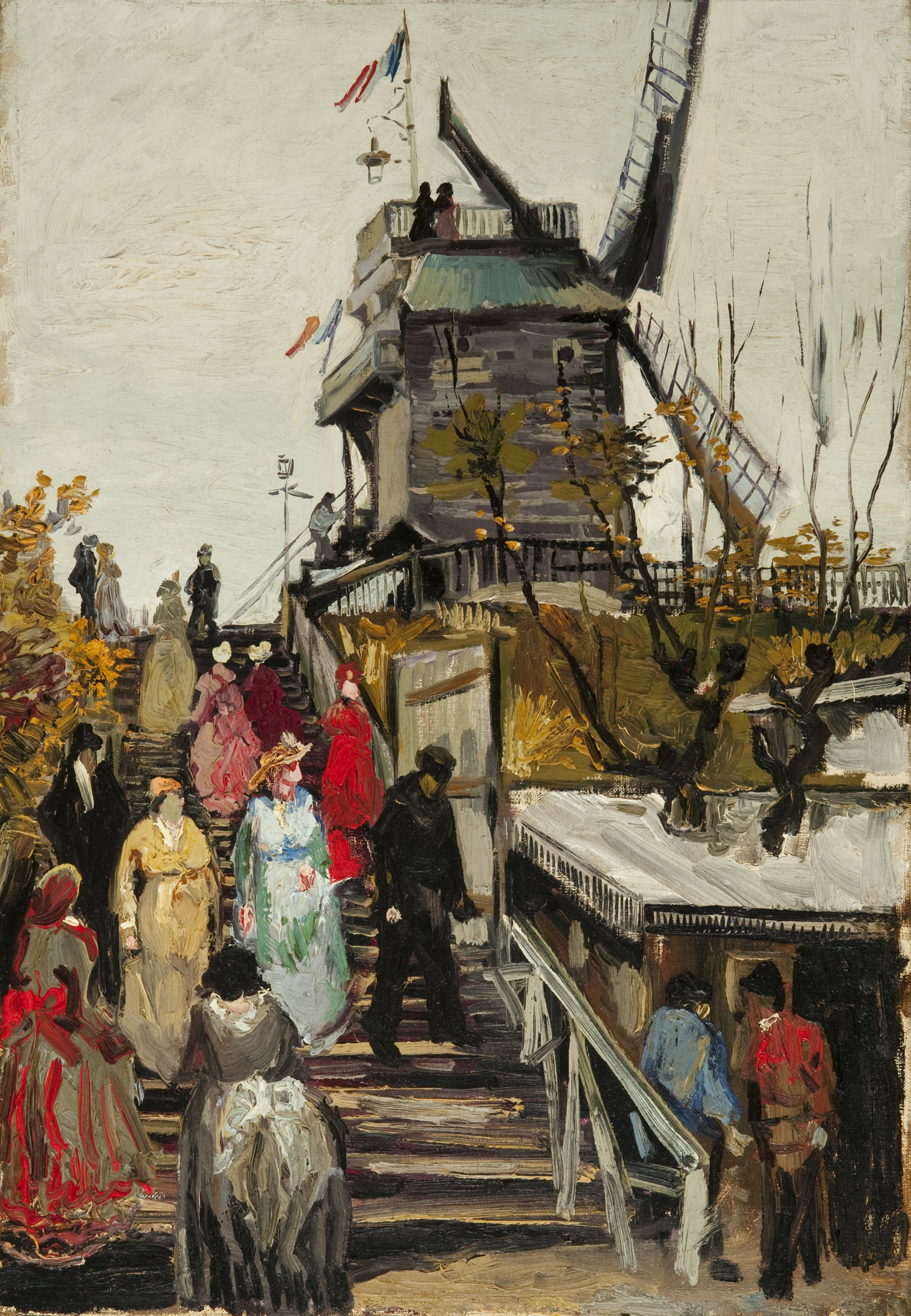 Painting by Vincent van Gogh - on display in the Fundatie museum in Zwolle Technique = Oil on canvas Dimensions = Location = Zwolle Gallery = Year = 1886